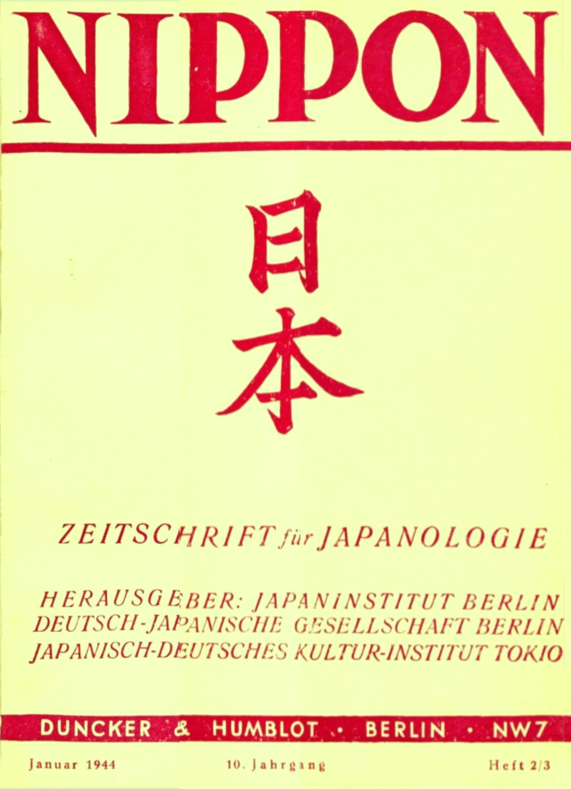 "Nippon" - Journal of Japanology, Germani 1935 to 1945